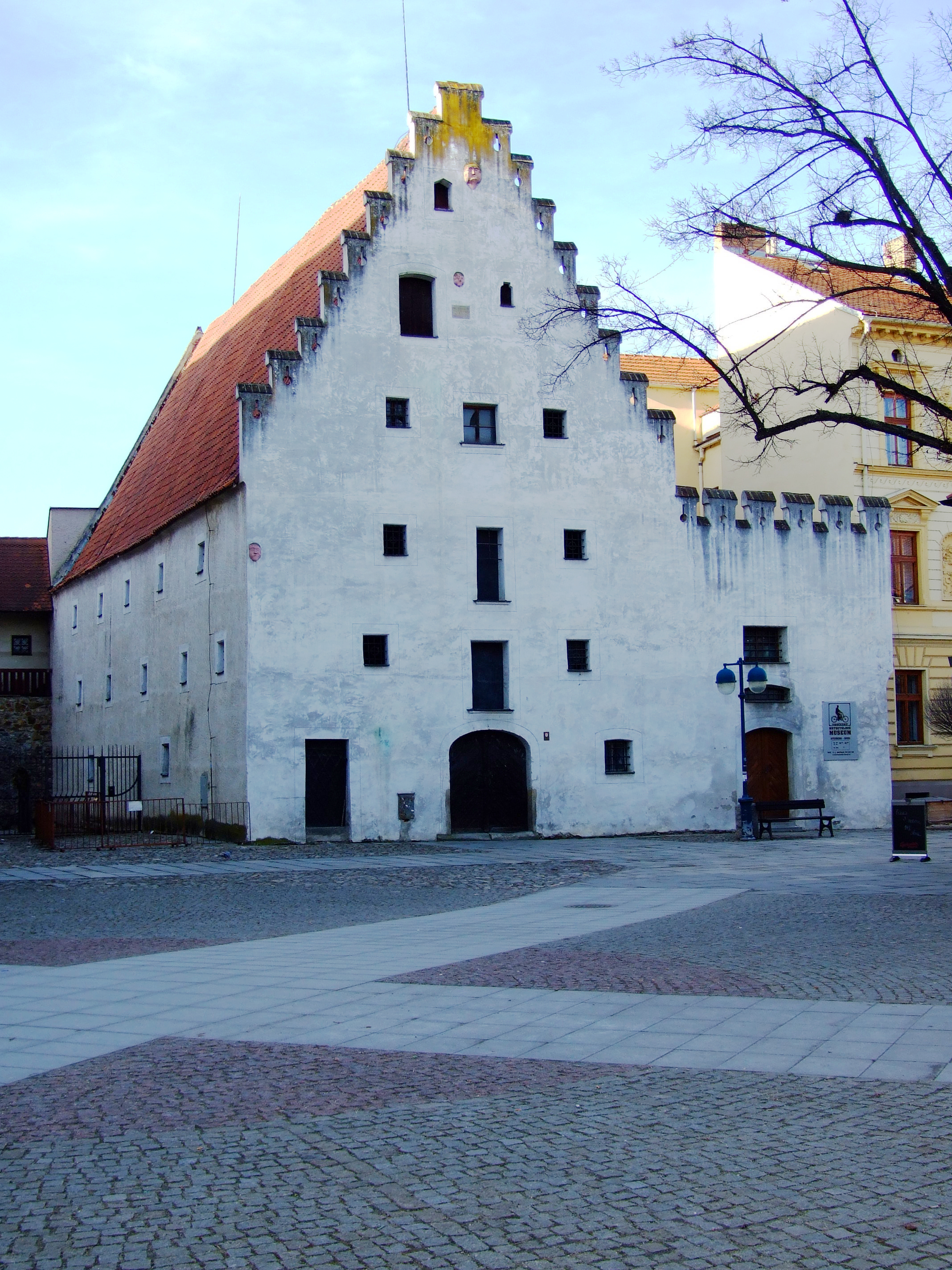 Salt house presently housing a motorbike museum in Piaristické náměstí, České Budějovice, Czech Republic